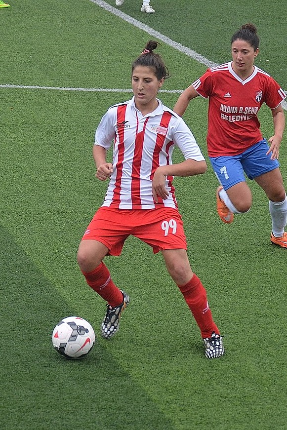 Belediyespor in the 2014-14 season